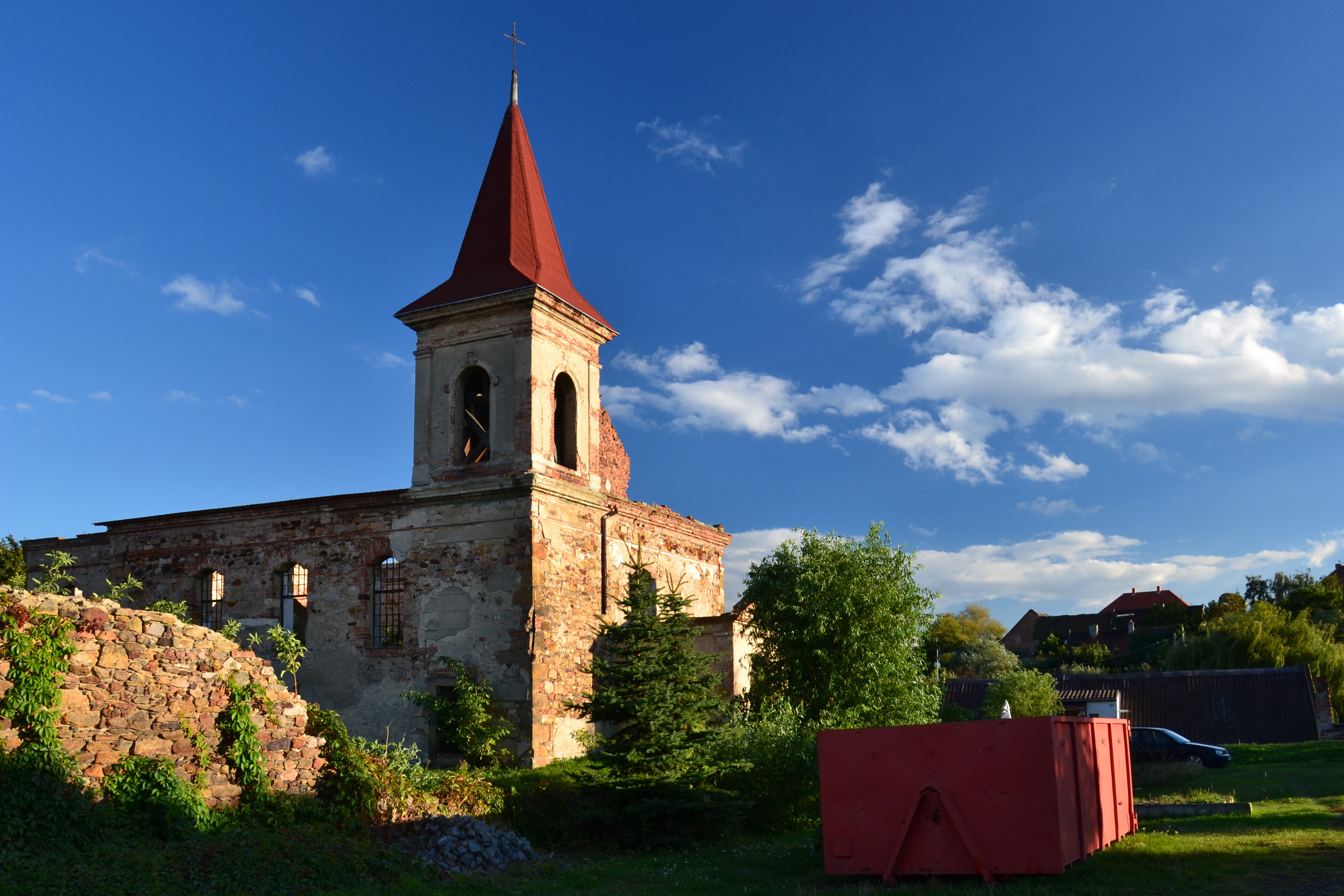 Church of Saint Michael the Archangel in Všestudy, Chomutov District, the Czech Republic.